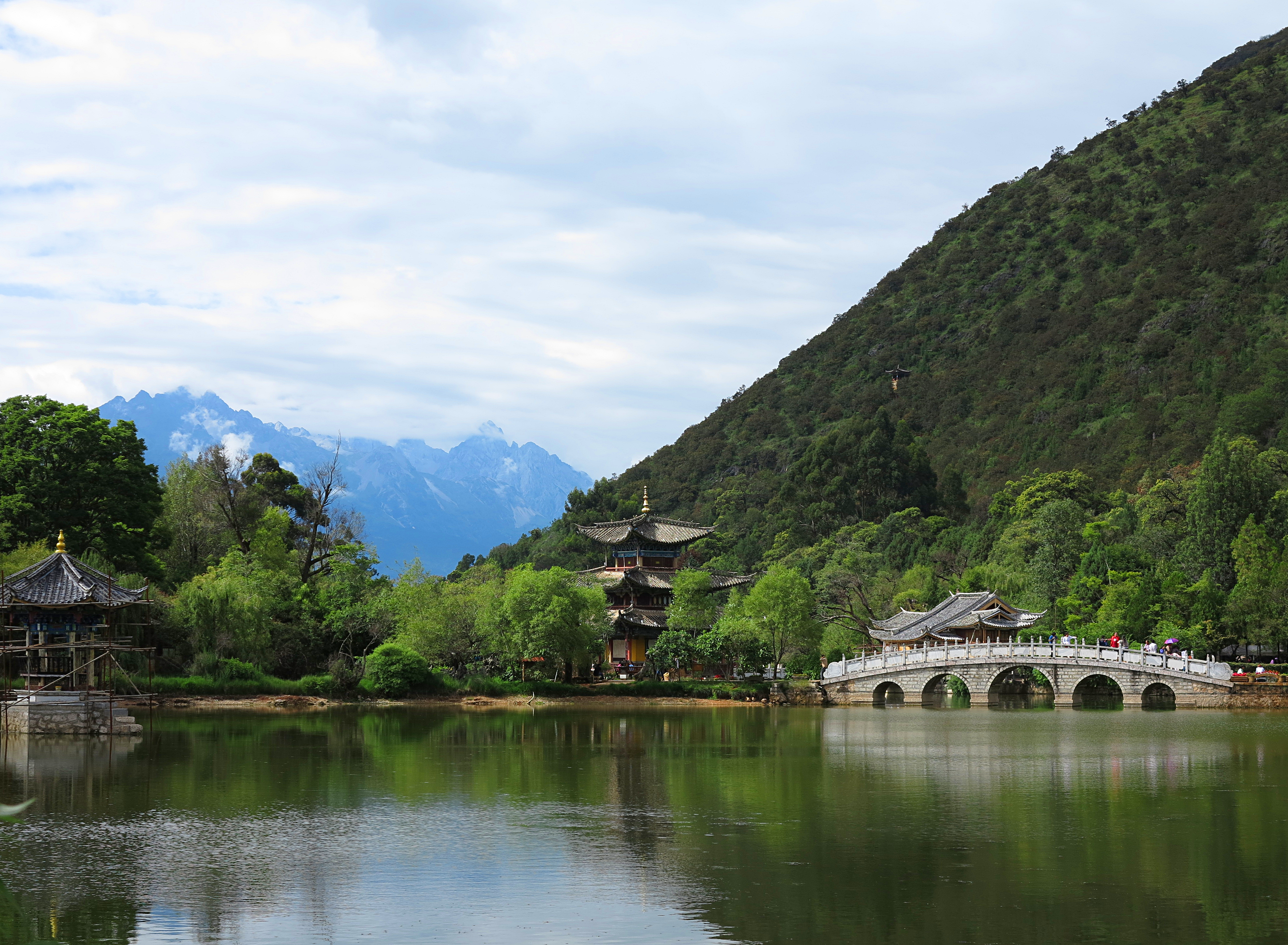 Black Dragon Pool park; Jade Dragon Snow Mountain